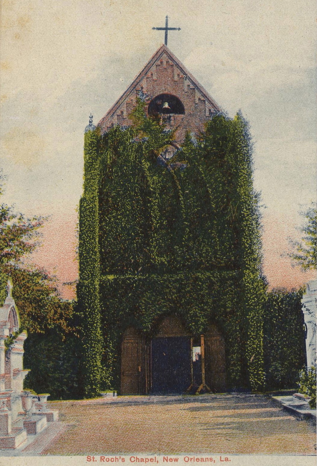 Chapel in St. Roch Cemetery, New Orleans, Louisiana Old post card view